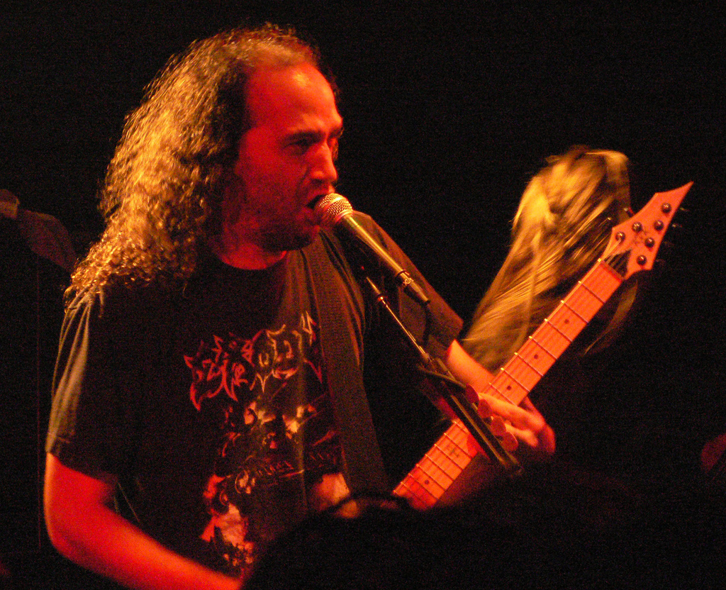 I took this picture at a Nile concert on 27 August 2007 at Jaxx nightclub in West Springfield, Virginia. I wanted to add this to the article about Dallas Toler-Wade.